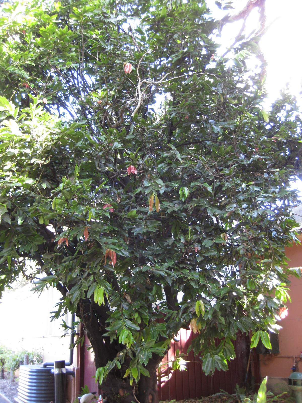 Photographed at the Royal Botanic Gardens Sydney (Australia) in December